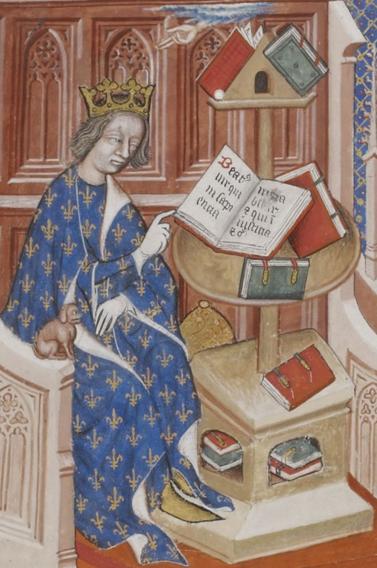 Charles V of France